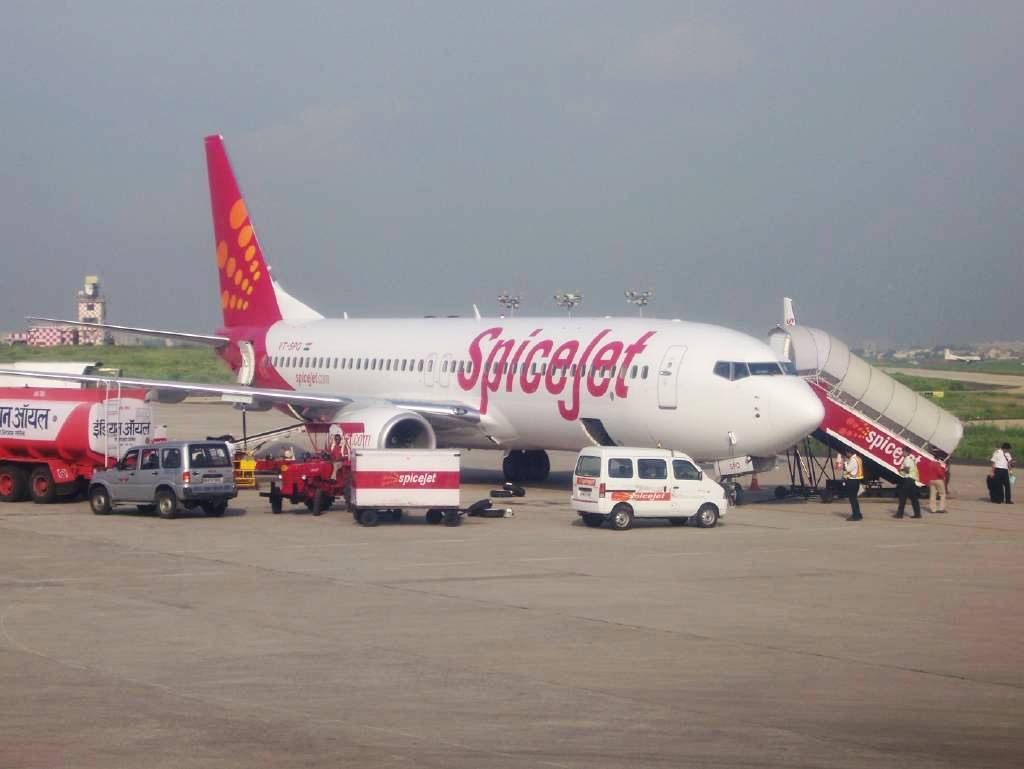 A SpiceJet Boeing 737-800 (VT-SPQ) at Indira Gandhi International Airport.